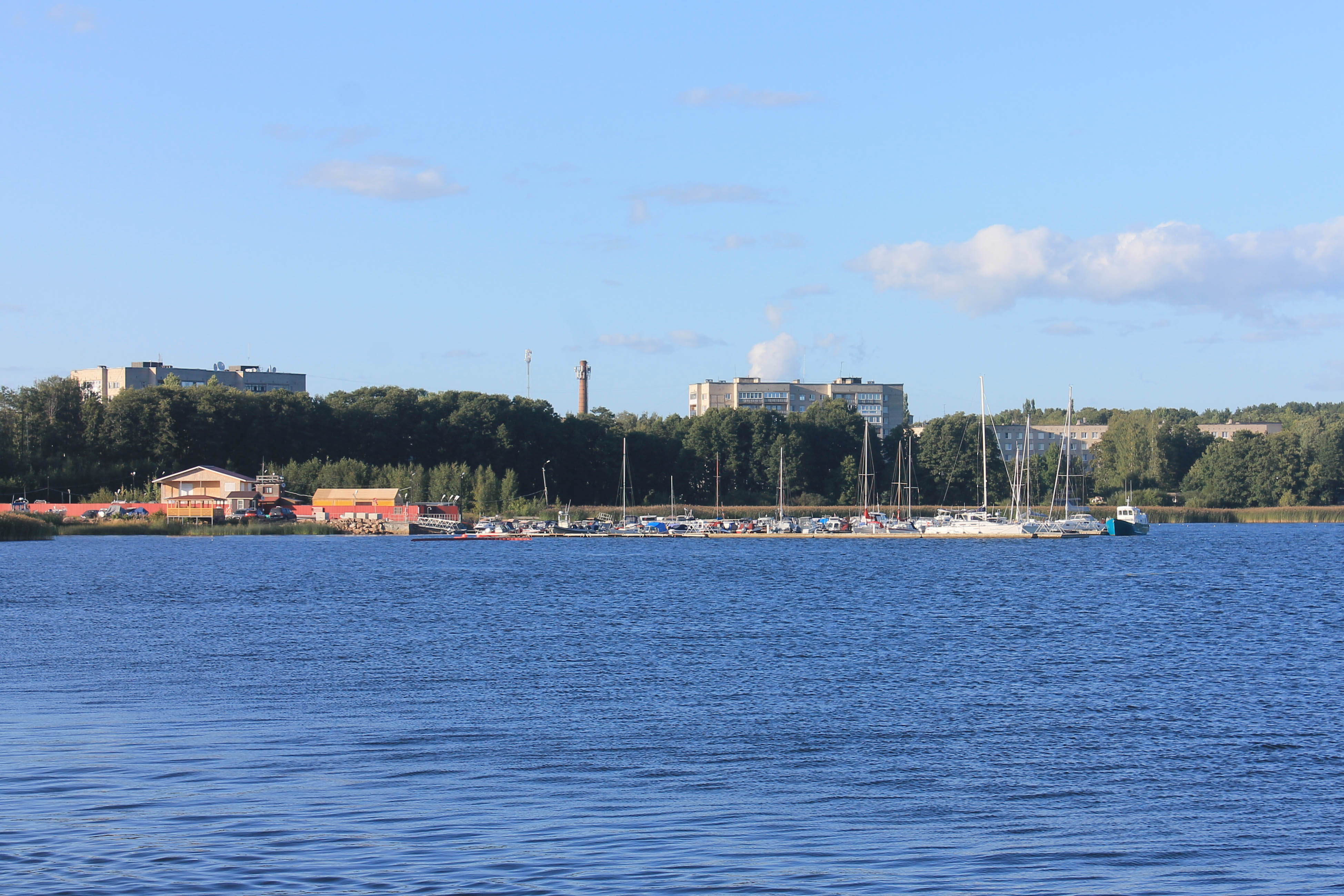 Primorsk view from the mall. Shot was taken during wiki-meetup in Primorsk at August 17, 2020.